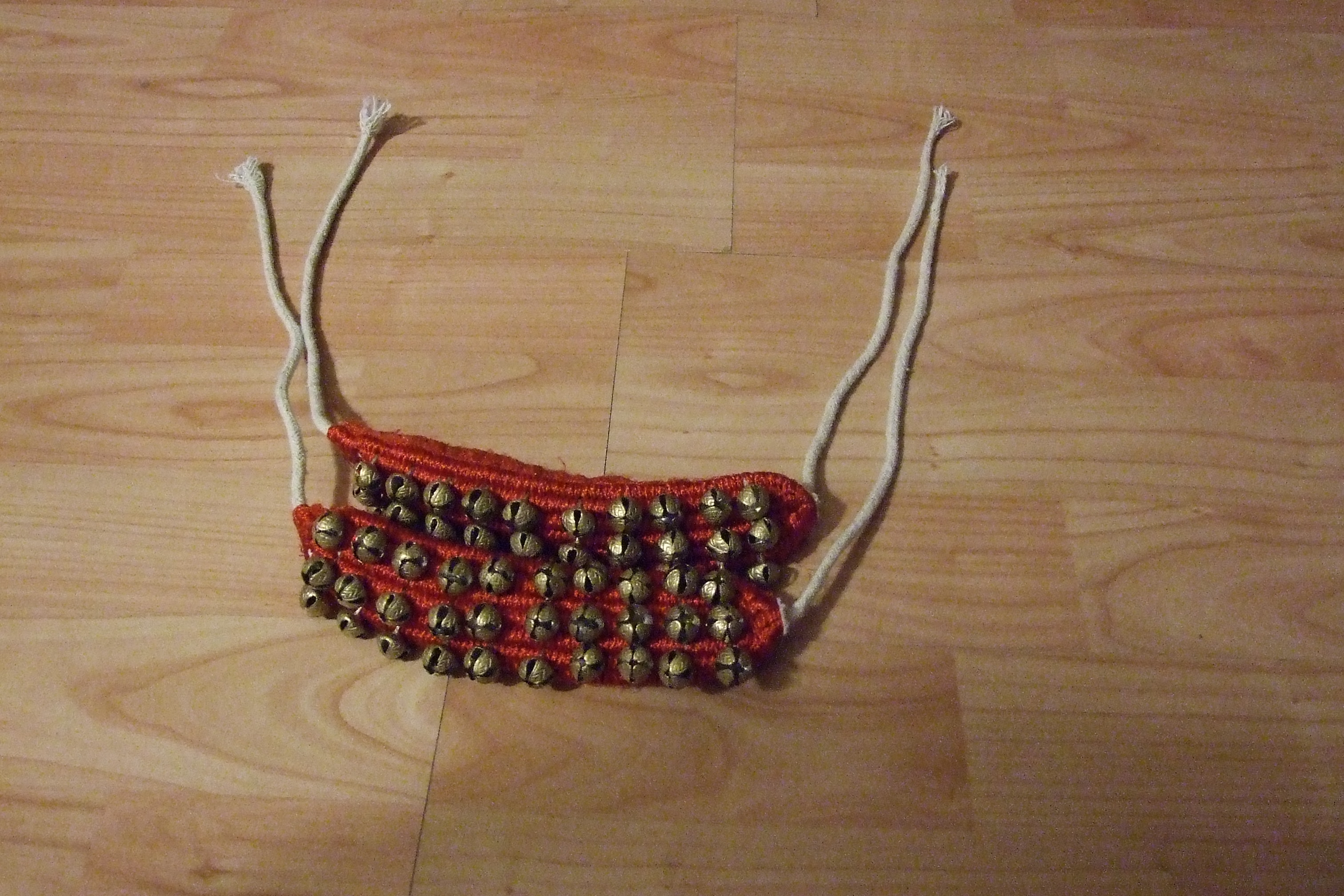 A ghungroo, a musical accessory tied to the feet of classical Indian dancers.